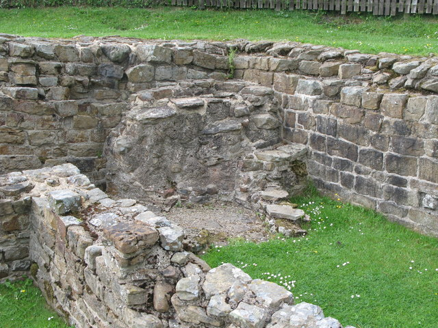 The remains of ovens in the northwest corner of Milecastle 48